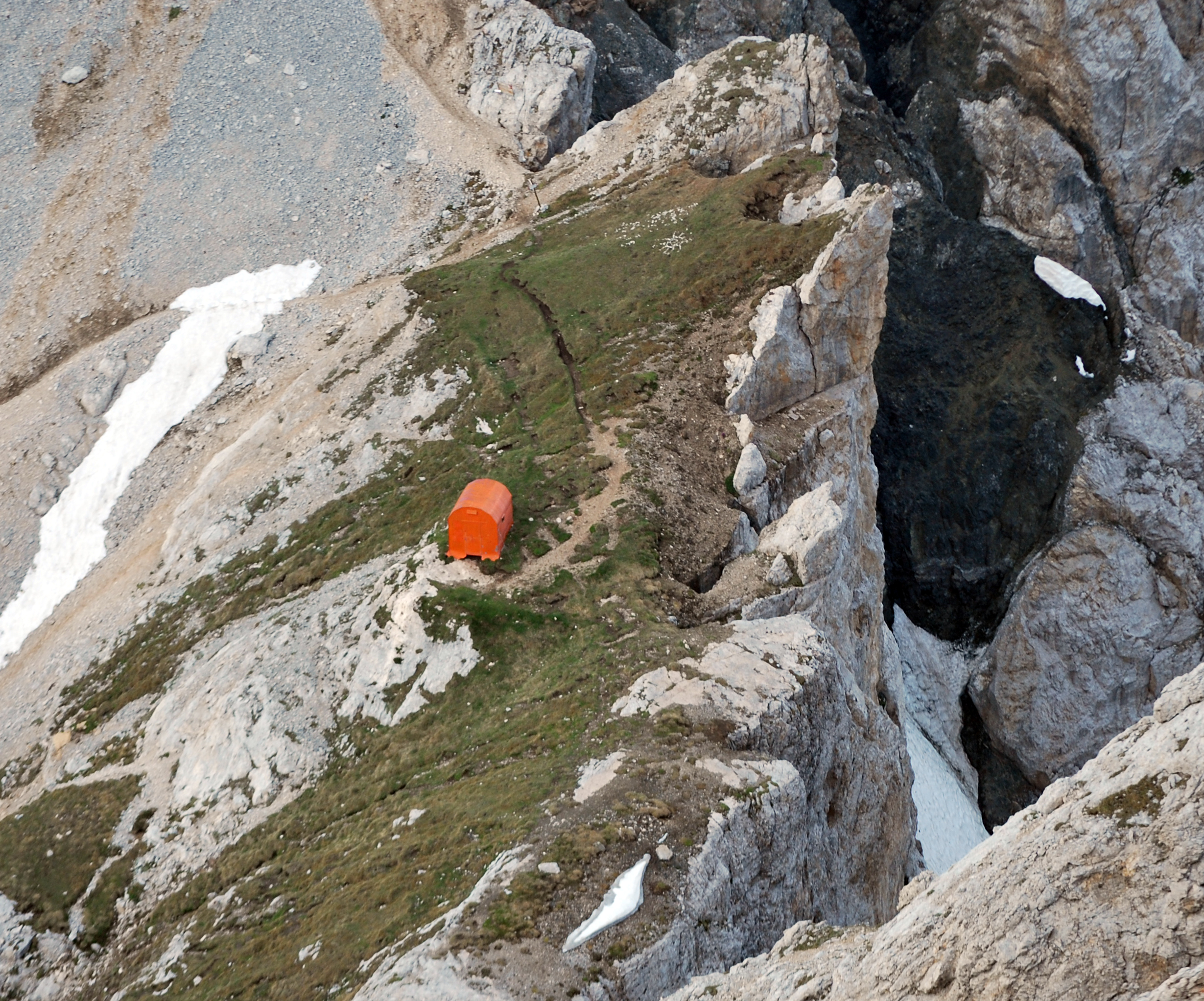 Bivacco Rigatti from E